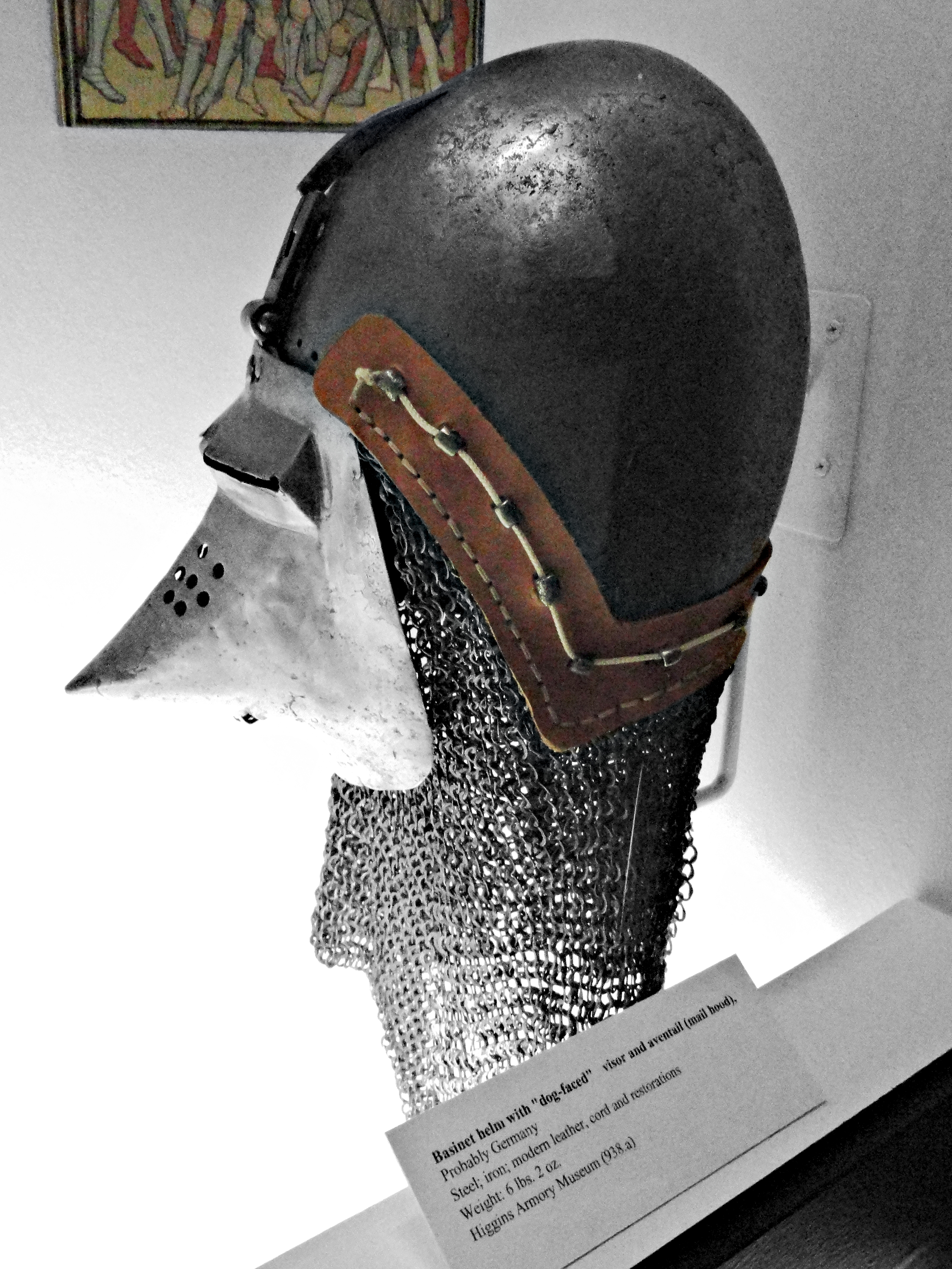 Exhibit in the Higgins Armory Museum, 100 Barber Avenue, Worcester, Massachusetts, USA. The museum permitted photography without any restriction, both in writing and when I asked verbally.